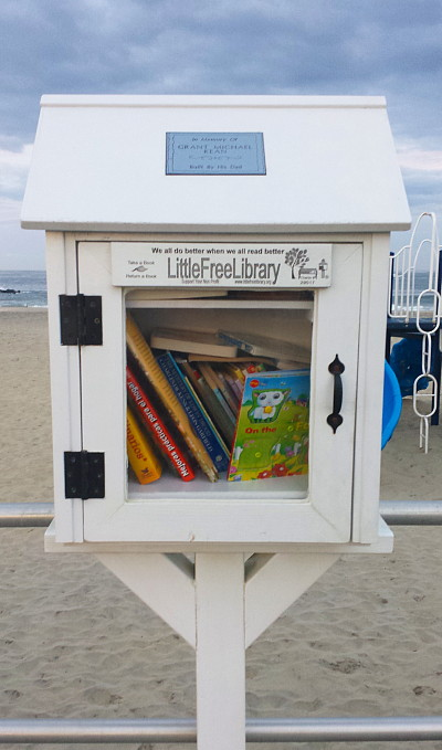 Avon encourages reading by making books accessible.